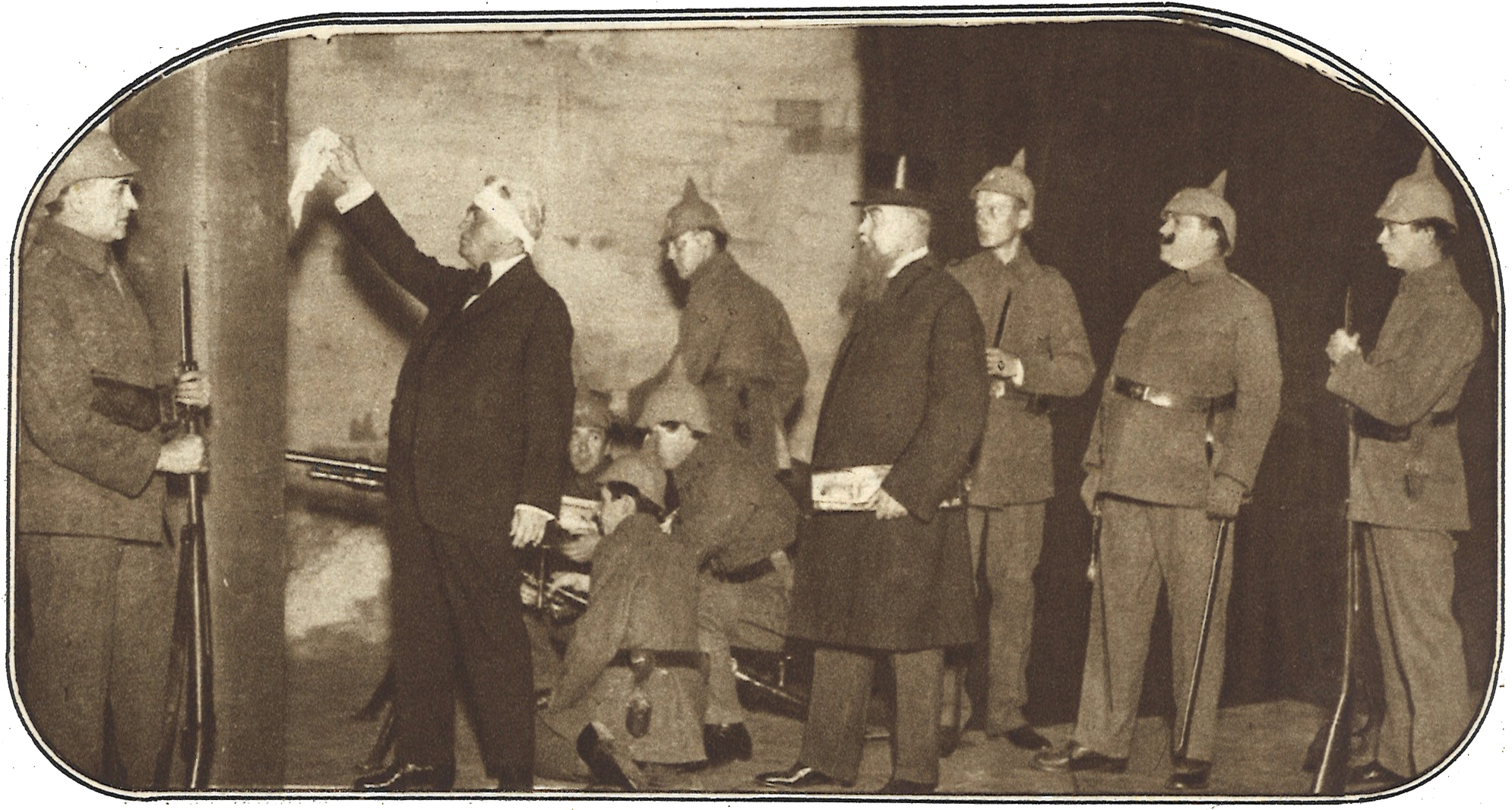 Scene from German playwright Georg Kaiser's play "Gas" as performed at Vasateatern in Stockholm in 1925. Director: Gunnar Klintberg (regissör).